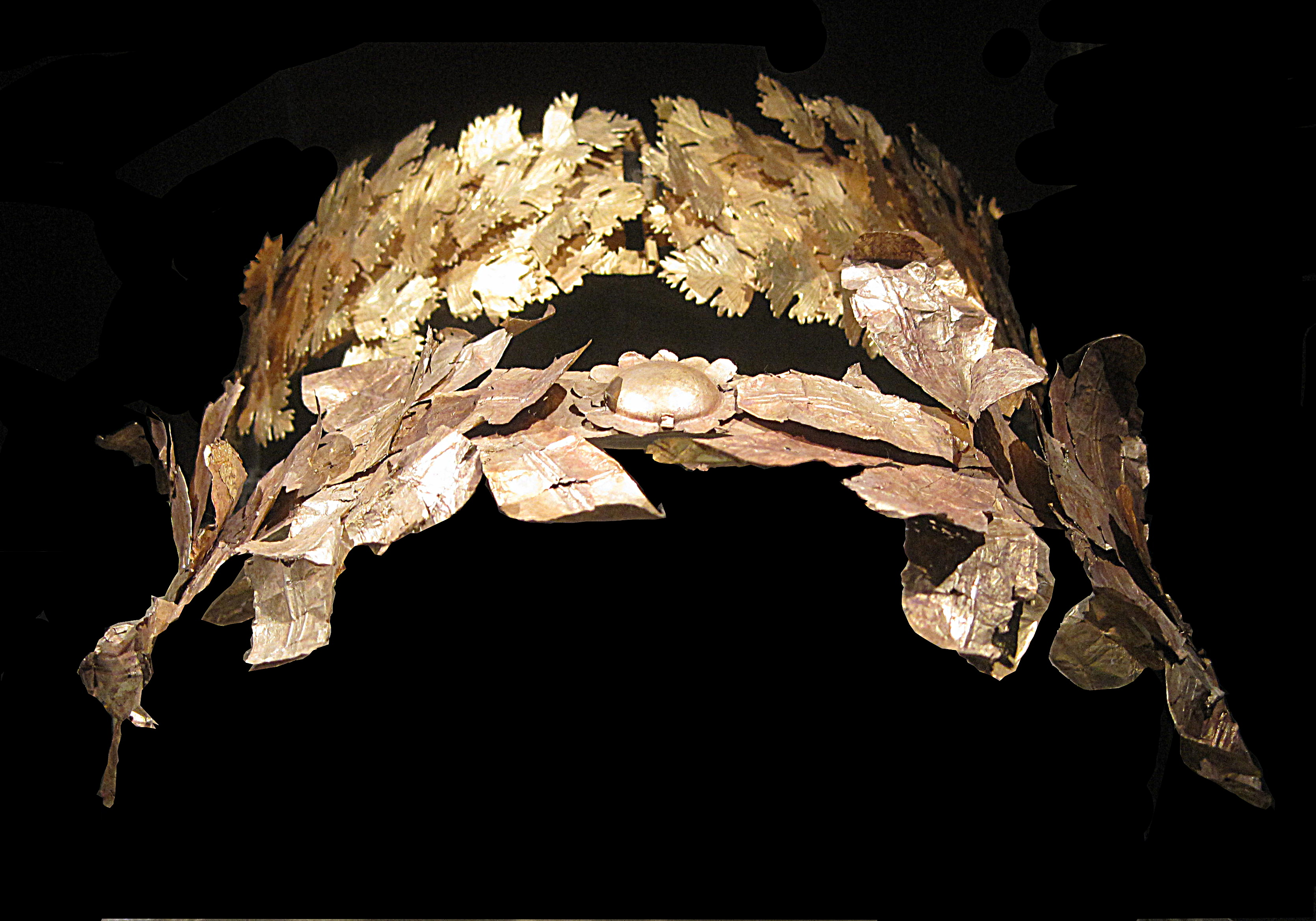 Crowns found at Vulci in the necropolis Camposcola - The first is composed of oak leaves in gold and another of laurel leaves in gold - Middle of the IV century BC. - Gregorian Etruscan Museum (Vatican Museum) - Accession number =13482 et 13481.